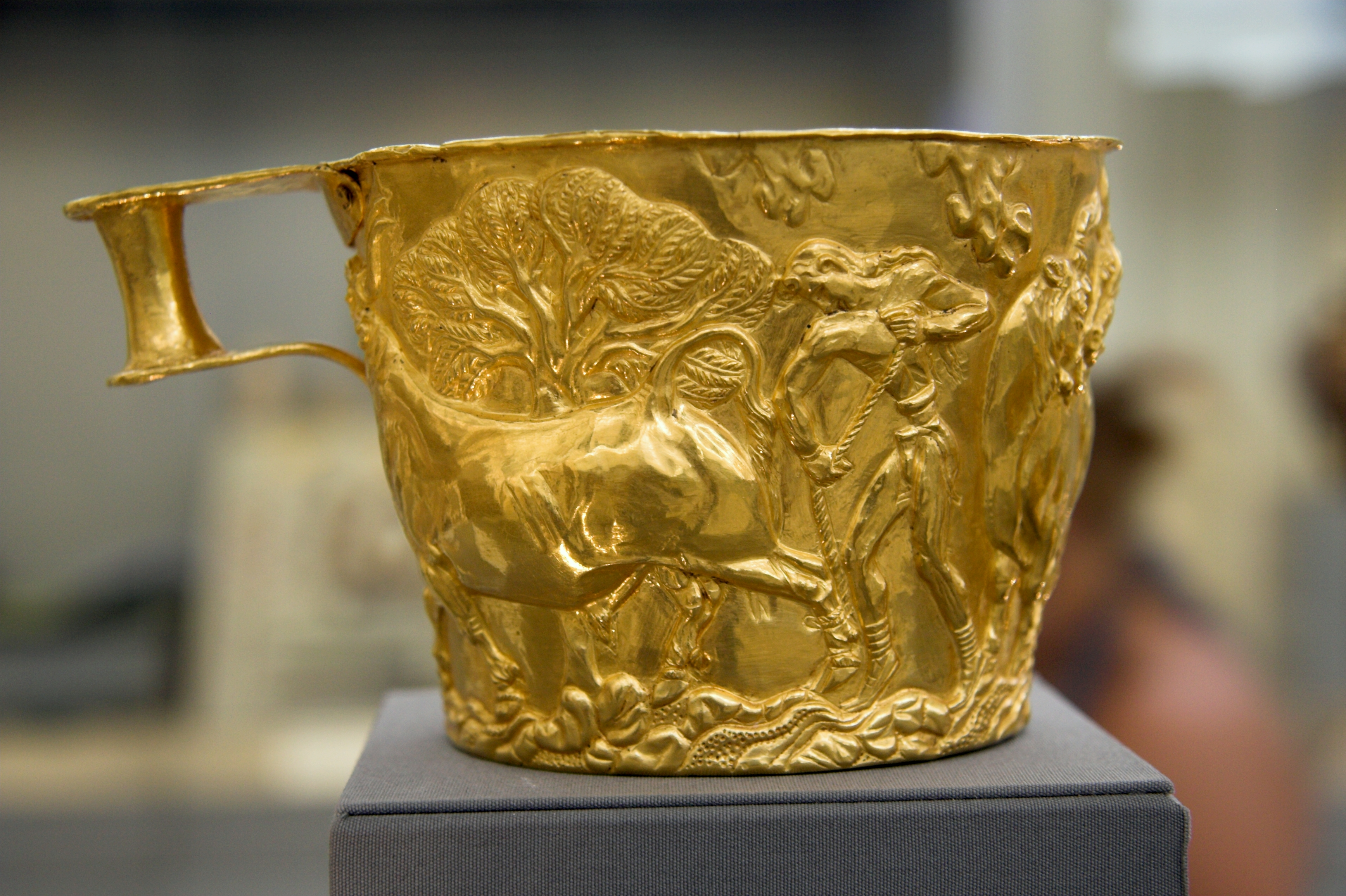 Gold cup with relief: Taurus is caught, the man tied a bull leg. Vafio (Vaphio) in Sparta, Peloponnese. Late Bronze Age, 1500 to 1450 BC. National Archaeological Museum of Athens N 1759.